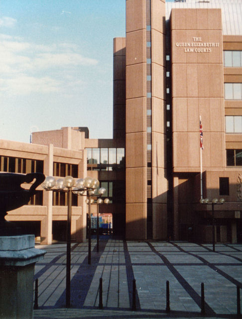 Queen Elizabeth II Law Courts, 1988 This was a spectacularly unsuccessful attempt to recreate an old photograph of South Castle Street. I discovered the entire street had disappeared. Might as well take the photo while I'm here, though. The courts were built in 1984.